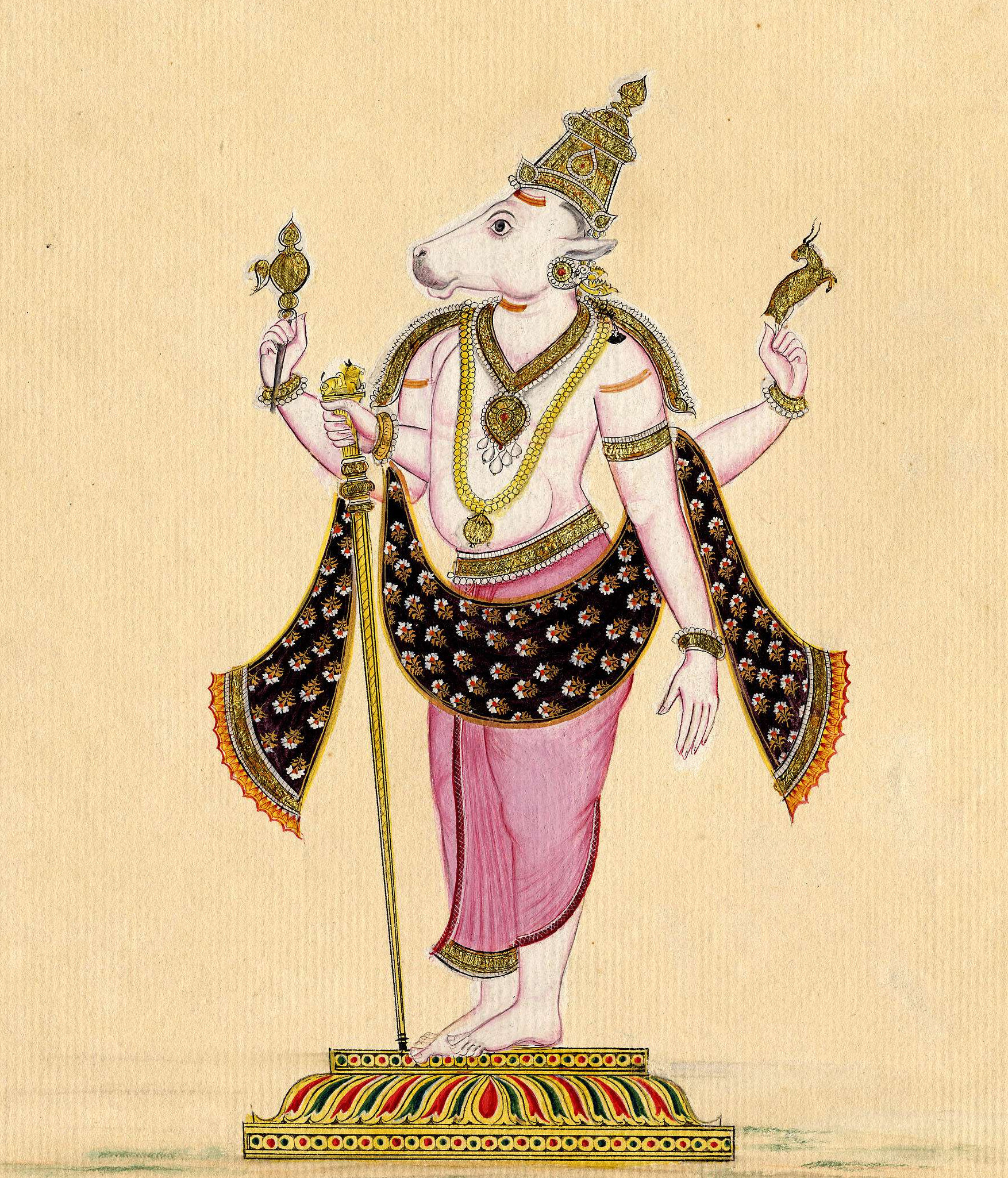 "Painting on paper depicting the white-complexioned Nandi in his zoo-anthropomorphic form. Nandi is standing on a low pedestal. He wears a crown, is dressed in a dhoti and an angavstra is draped on his elbows, on his forehead, chest and arms are tripundra marks. In his upper right hand he carries the parashu, in his upper left the mriga. In his lower right hand is a long rod topped with a crouching Nandi image, his lower left hand hangs at his side."